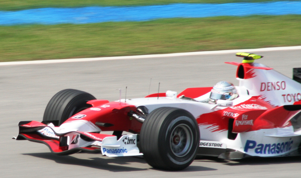 Jarno Trulli driving for Toyota at the 2007 Malaysian Grand Prix.